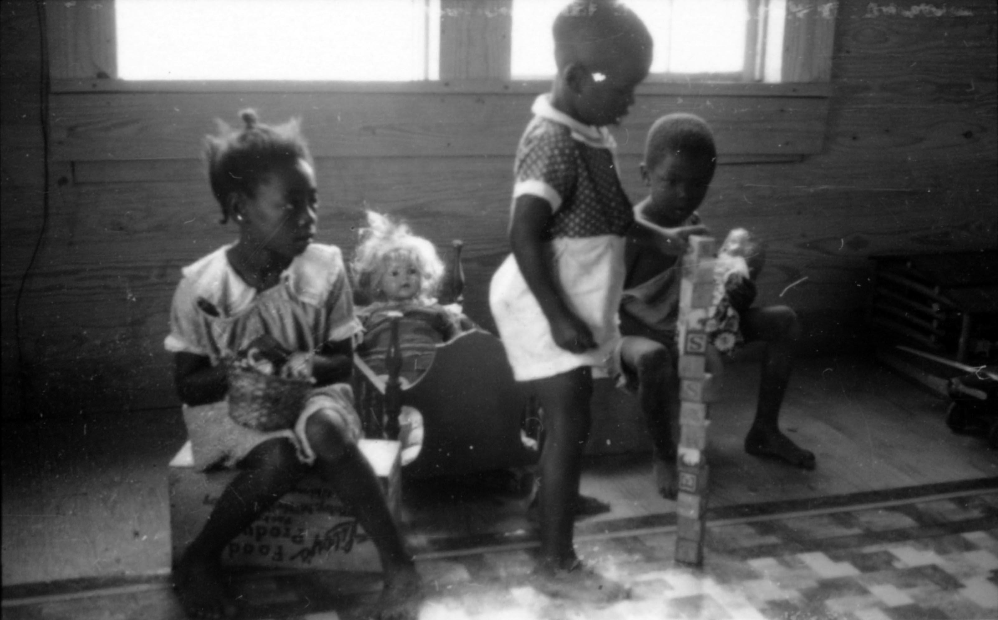 Title: Three black children playing with dolls and alphabet blocks at Delta Cooperative Date: 1937 Photographer: Louise Boyle Photo ID: 5859pb2f31dc800g Collection: Louise Boyle. Southern Tenant Farmers Union Photographs, 1937 and 1982 Repository: The Kheel Center for Labor-Management Documentation and Archives in the ILR School at Cornell University is the Catherwood Library unit that collects, preserves, and makes accessible special collections documenting the history of the workplace and labor relations. Notes: Copyright: The copyright status of this image is unknown. It may also be subject to third party rights of privacy or publicity. Images are being made available for purposes of private study, scholarship, and research. The Kheel Center would like to learn more about this image and hear from any copyright owners who are not properly identified so that we may make the necessary corrections. Tags: Kheel Center for Labor-Management Documentation and Archives,Cornell University Library,Advertising, Children, Living Conditions